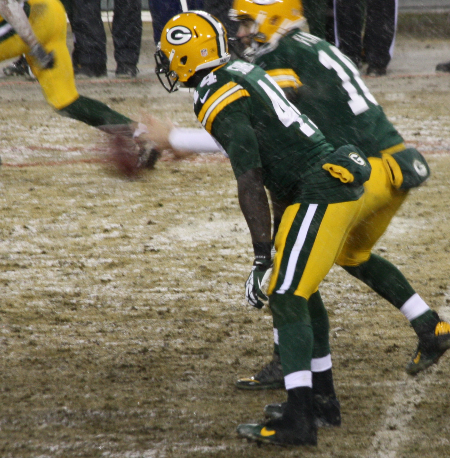 Green Bay Packers running back James Starks as quarterback Matt Flynn takes the snap to start a play against the Pittsburgh Steelers.